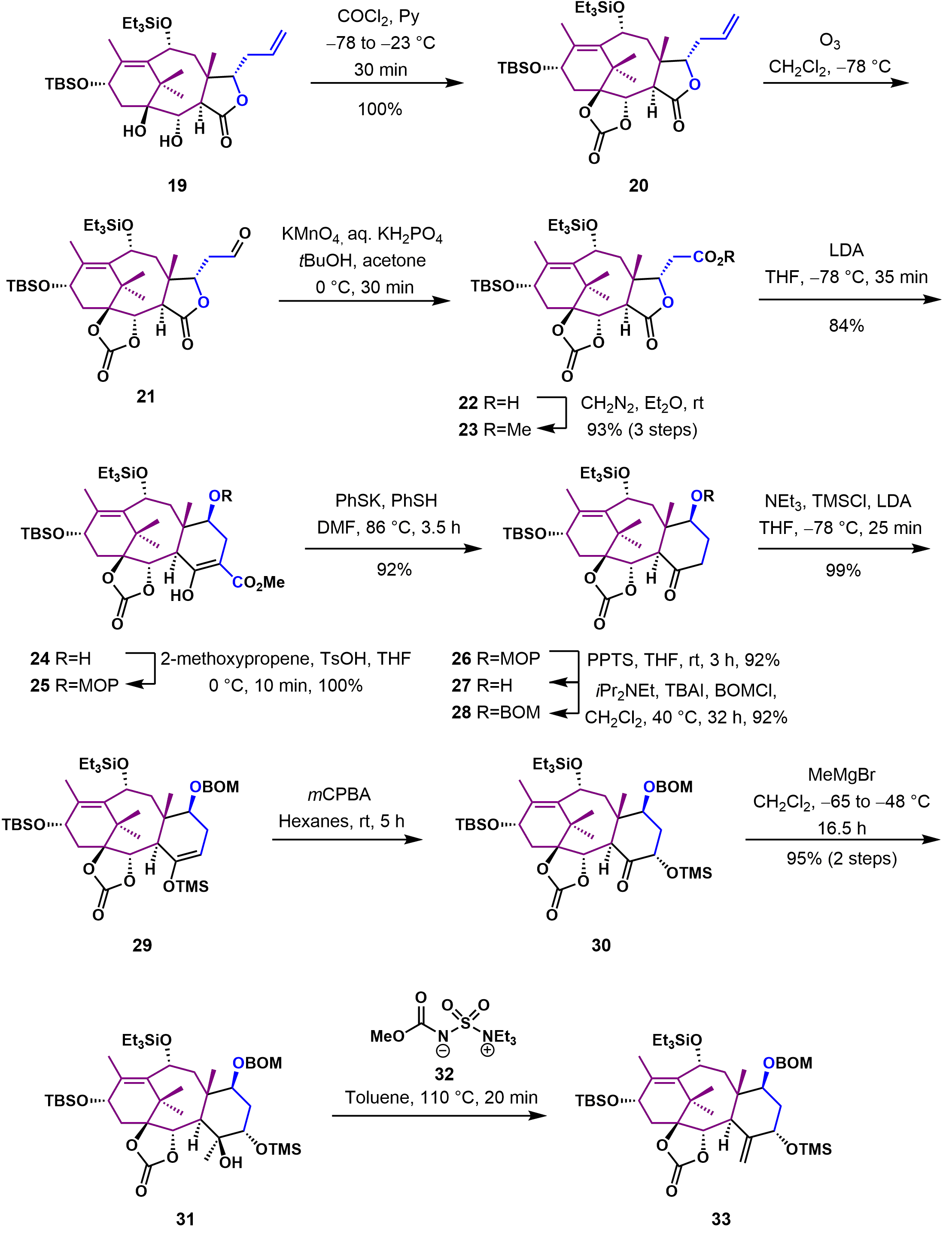 Part two of the synthesis of the C ring system.